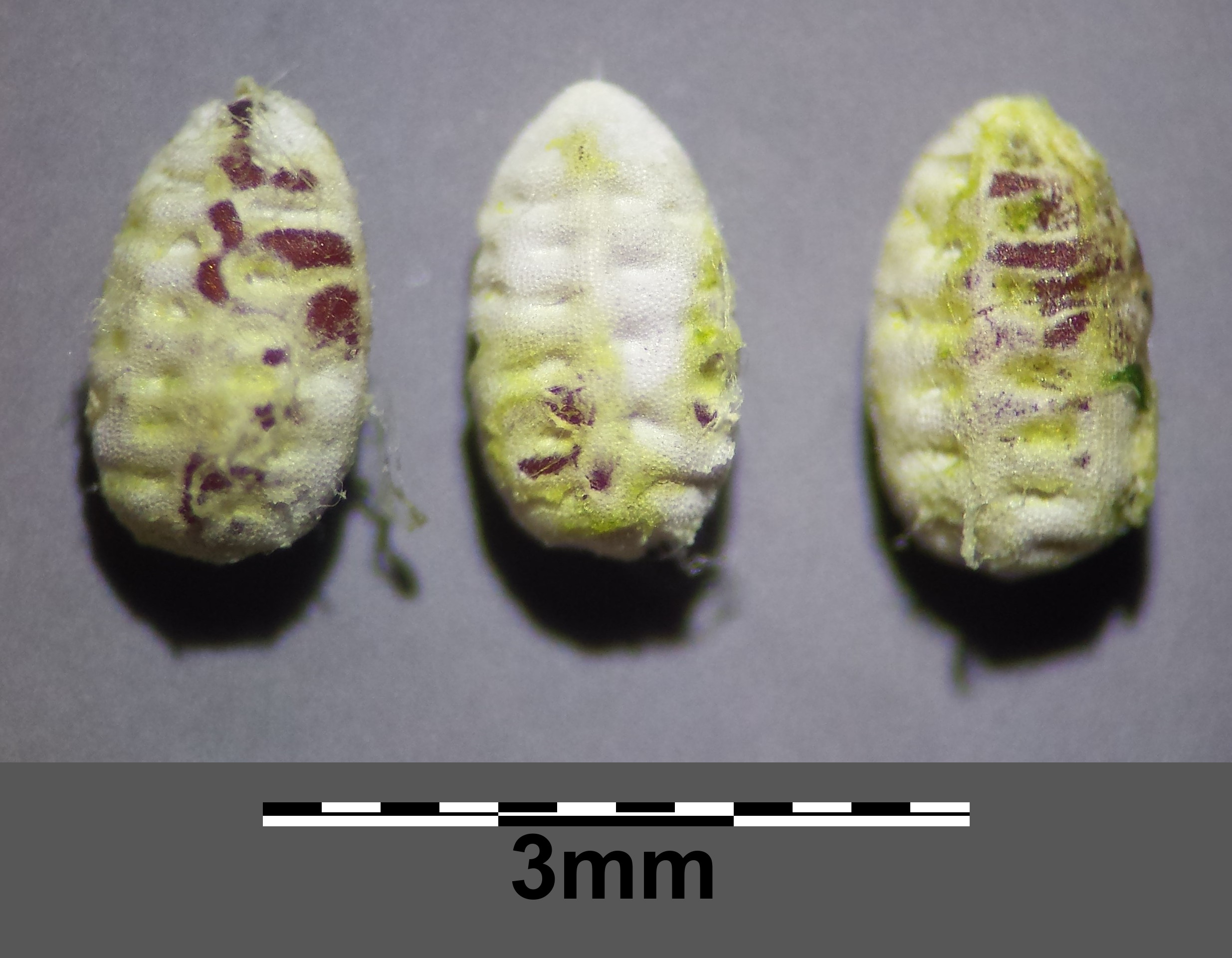 Seeds Taxonym: Euphorbia falcata (s. str.) ss Fischer et al. EfÖLS 2008 ISBN 978-3-85474-187-9 Location: next to Gebmannsberg, district Korneuburg, Lower Austria - ca. 300 m a.s.l. Habitat: field